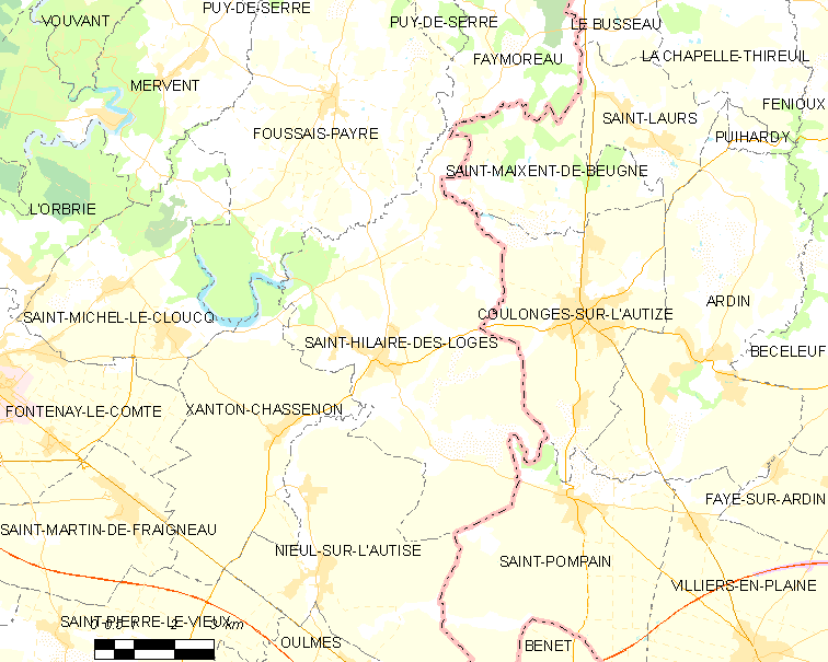 Map of French municipality Saint-Hilaire-des-Loges